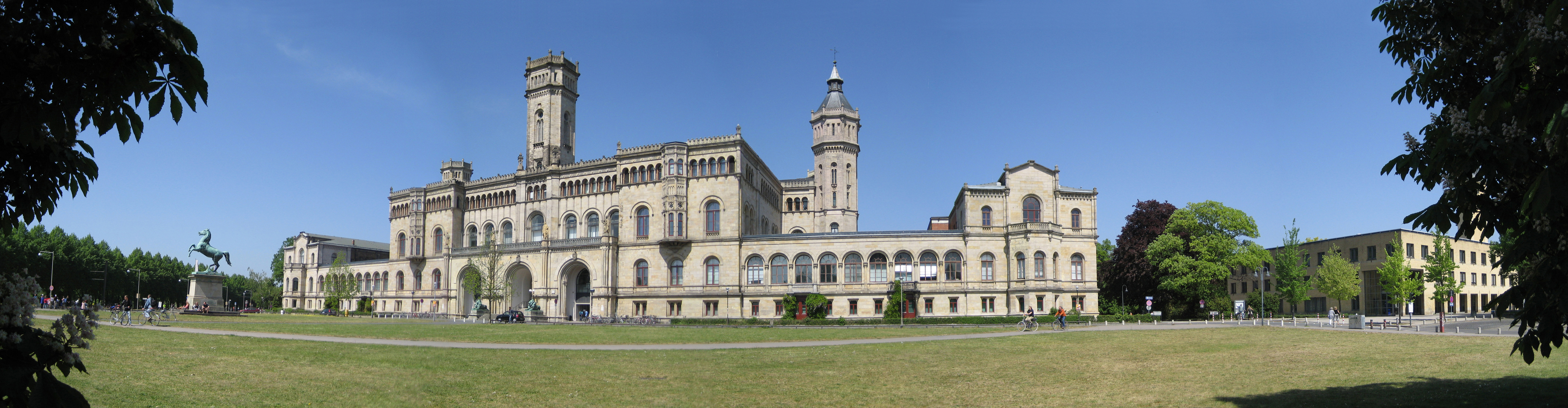 Leibniz University of Hanover